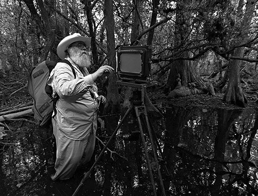 A picture of Clyde Butcher for his personal wiki page.